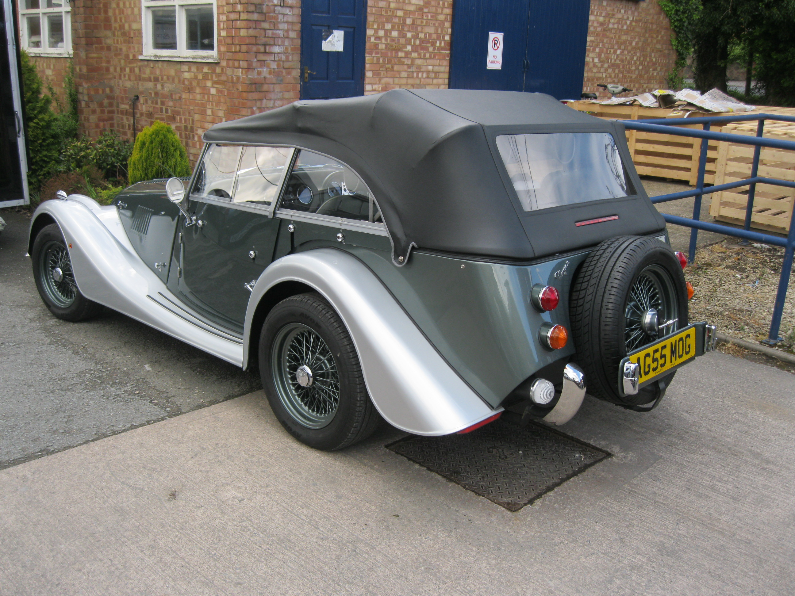 2012 Morgan 4 seater